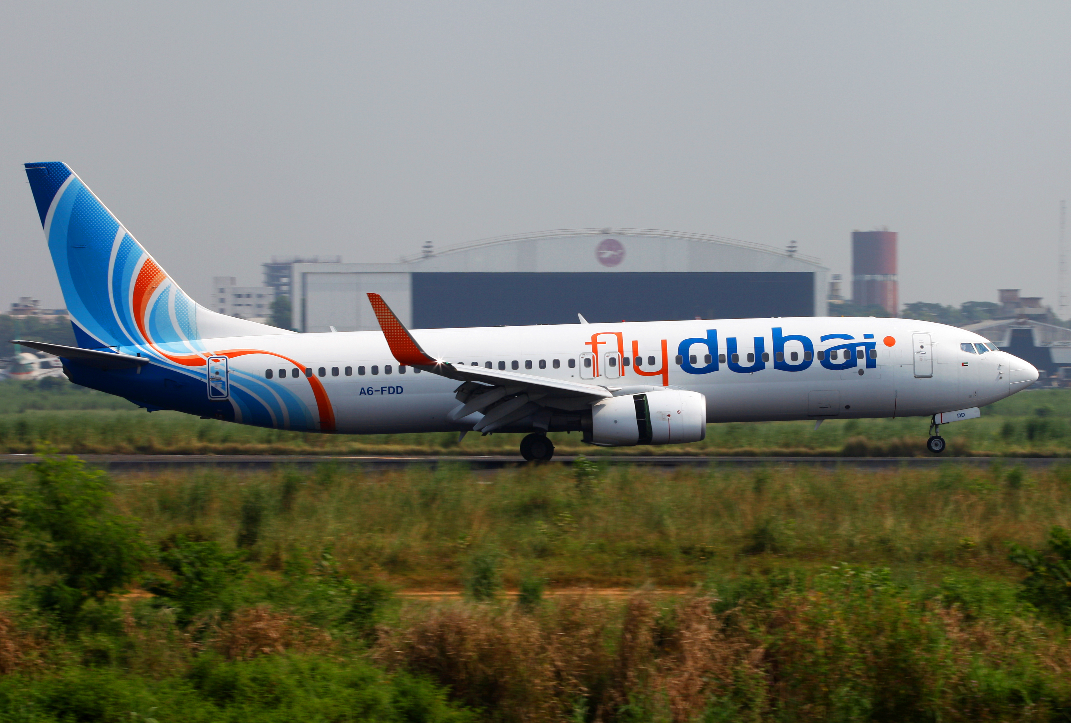 Flydubai Boeing 737-800 A6-FDD With Reverse Thrusters On After Landing at Hazrat Shahjalal International Airport Dhaka DAC / VGHS